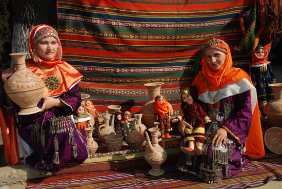 Lakian ethnography in the village of Balkhar in Dagestan, Russia.